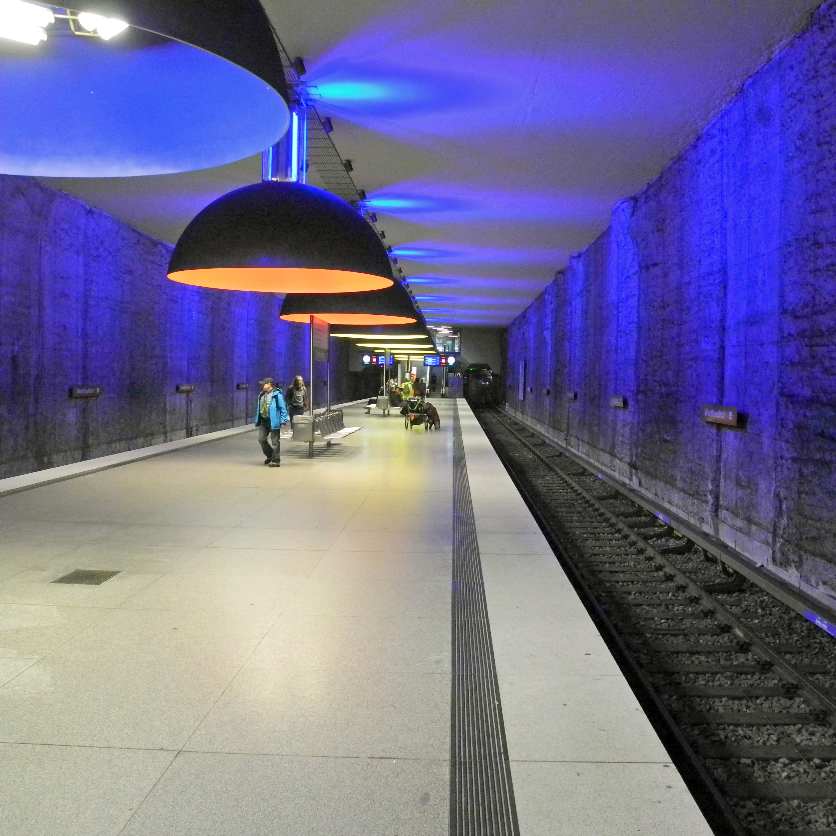 Munich Metro-Station Westfriedhof - Leuchten Ingo Maurer Team